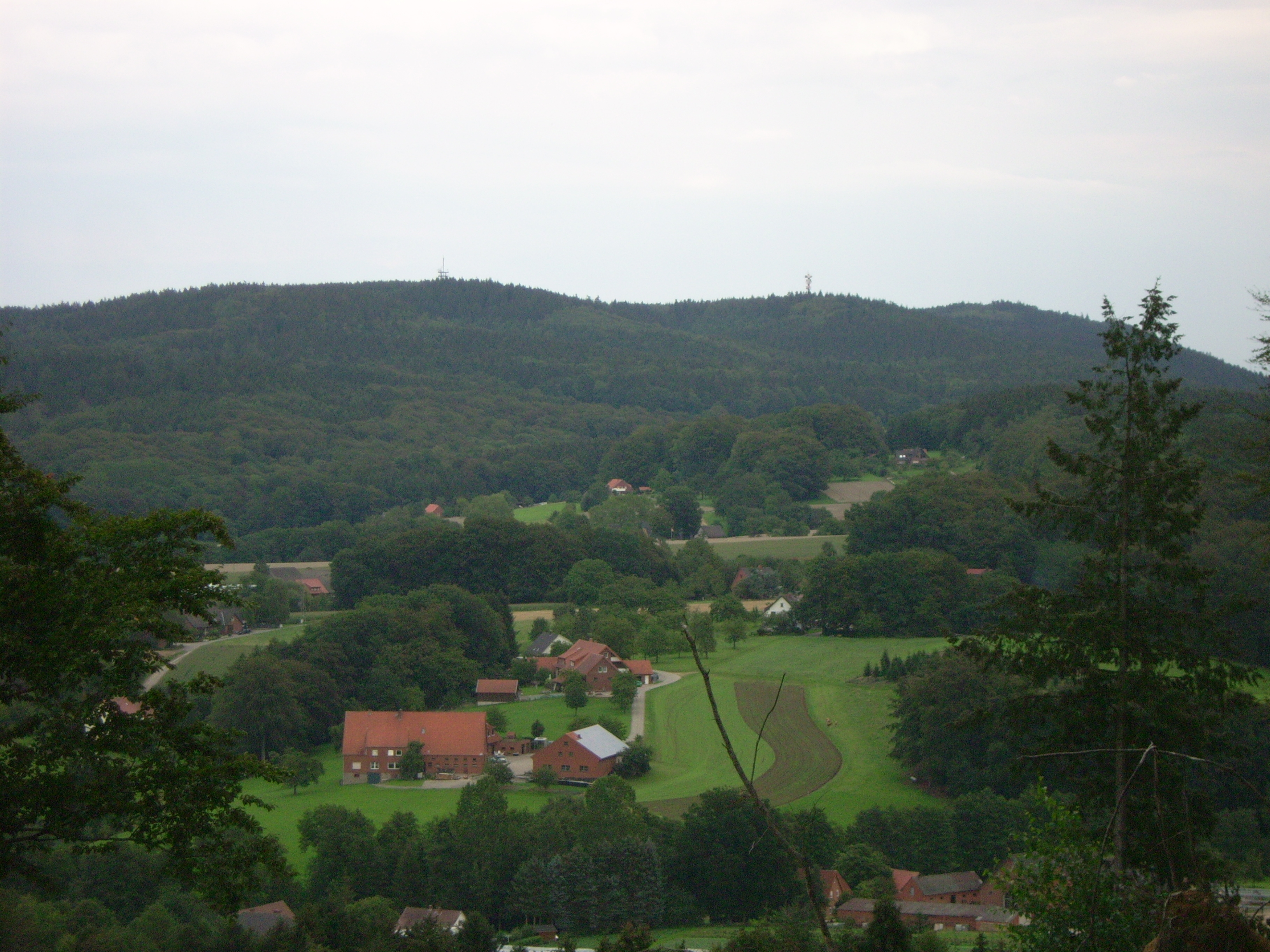 The Dörenberg at Northern Teutoburg Forest. View from Borgberg at Mentrup-Hagen